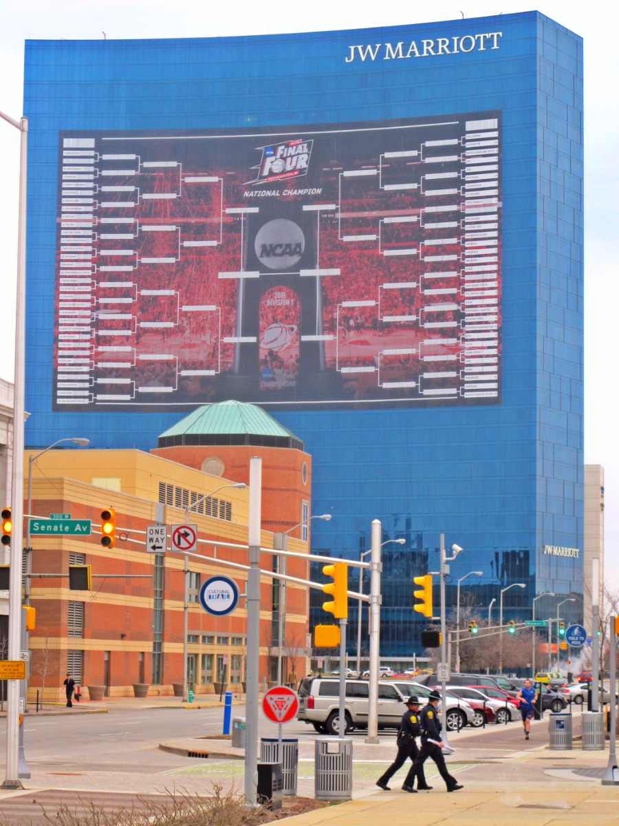 Bracket for the 2015 NCAA Men's Division I basketball tournament on the JW Marriott hotel in Indianapolis, Indiana.